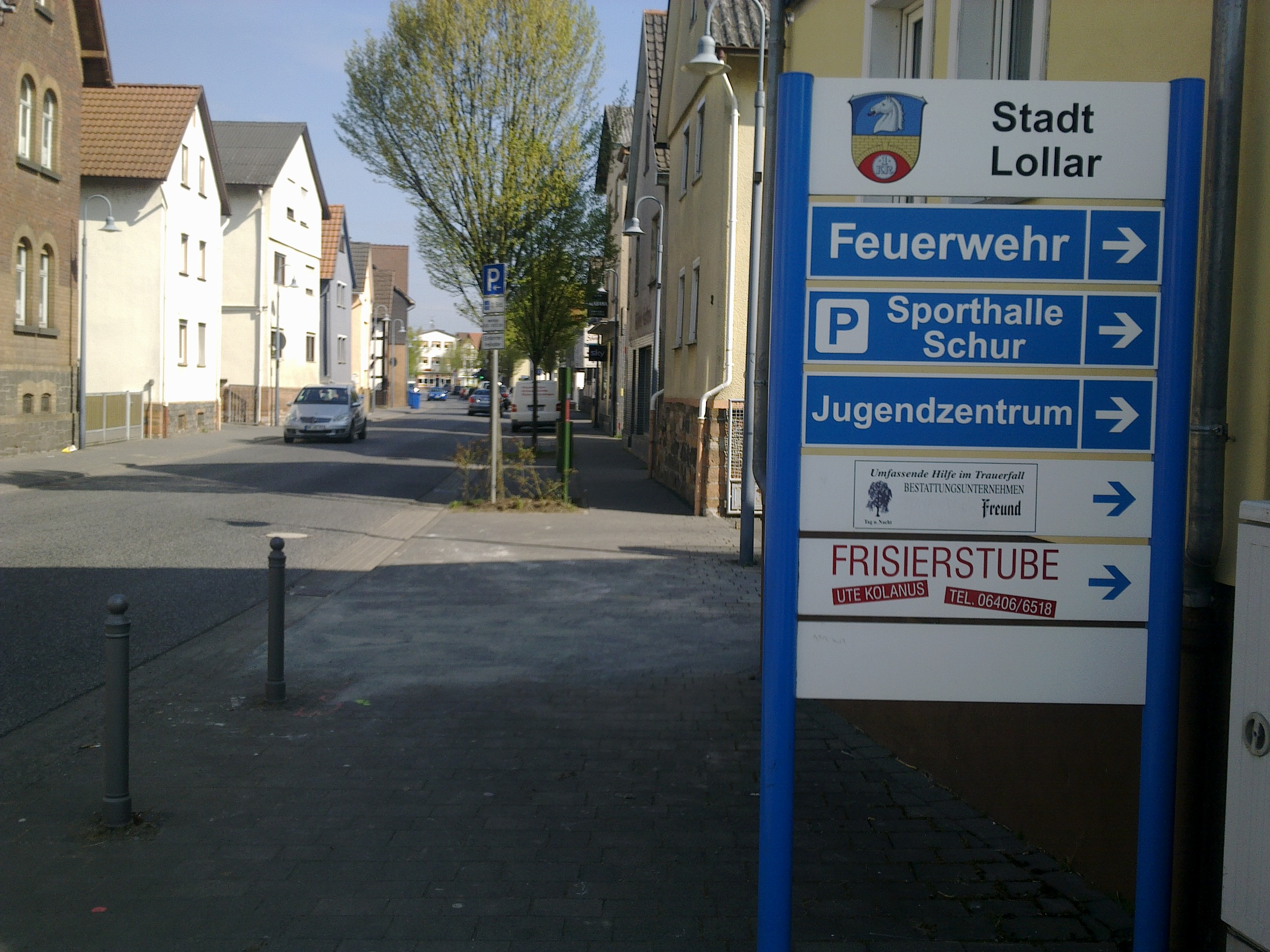 The city of Lollar is situated in Hessen, Germany